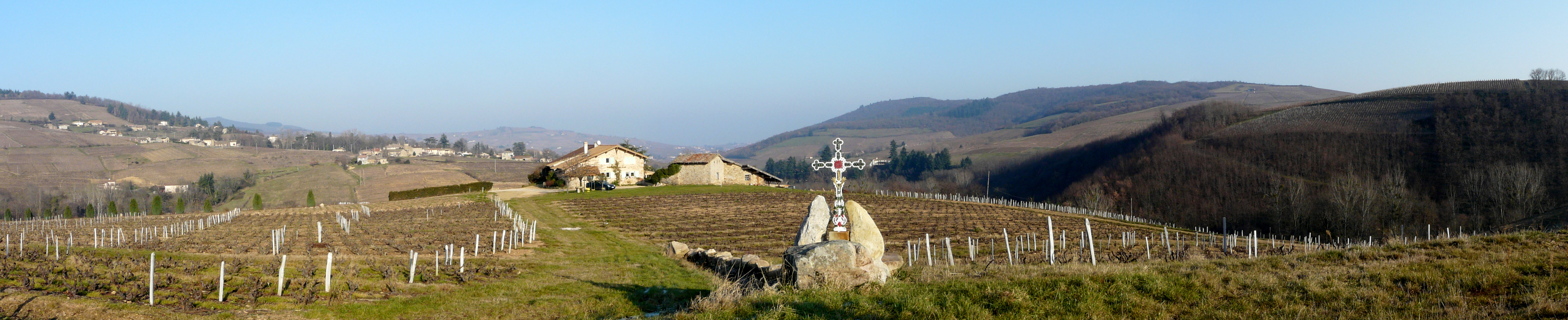 Panorama from the Cross of the Chizot